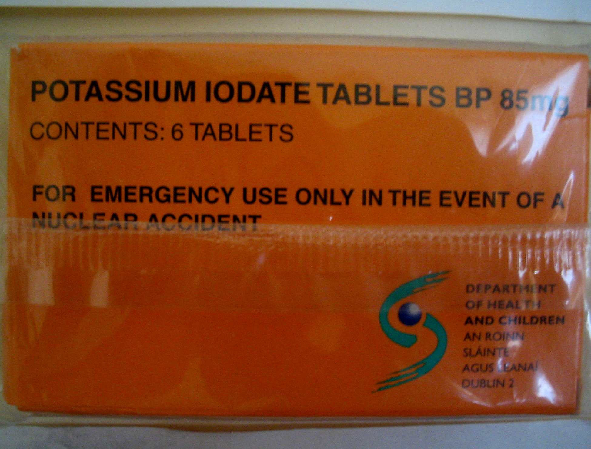 Unopened box of potassium iodate tablets, which is not FDA approved for radiation emergencies, produced by the Department of Health and Children, Republic of Ireland.